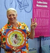 Gary Sohmers at Antiques Roadshow